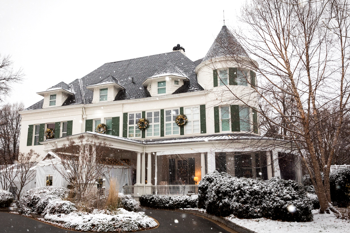 The Vice President’s residence at One Observatory Circle, December 2017.